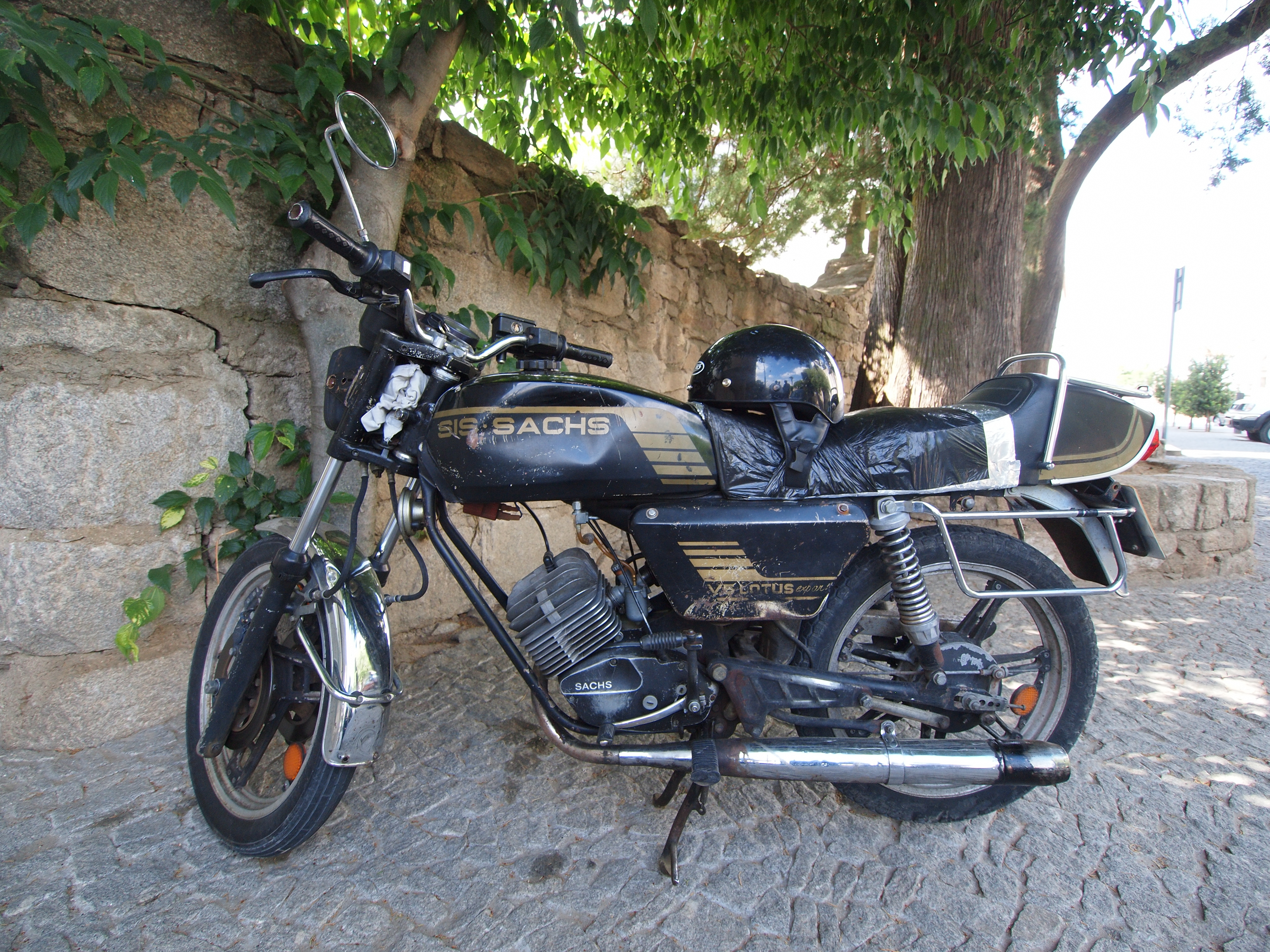 A portuguese built SIS (Sachs engined) V5 Lotus motorcycle, in the city of Miranda do Douro (2011)